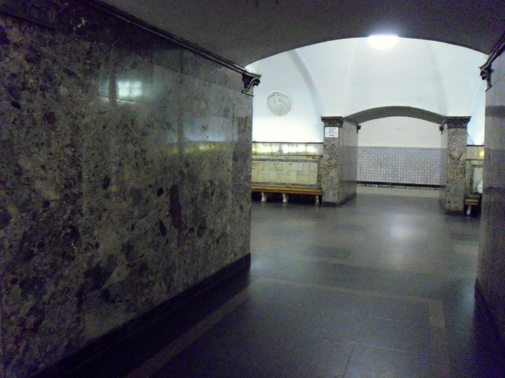 Dinamo metro station in Moscow